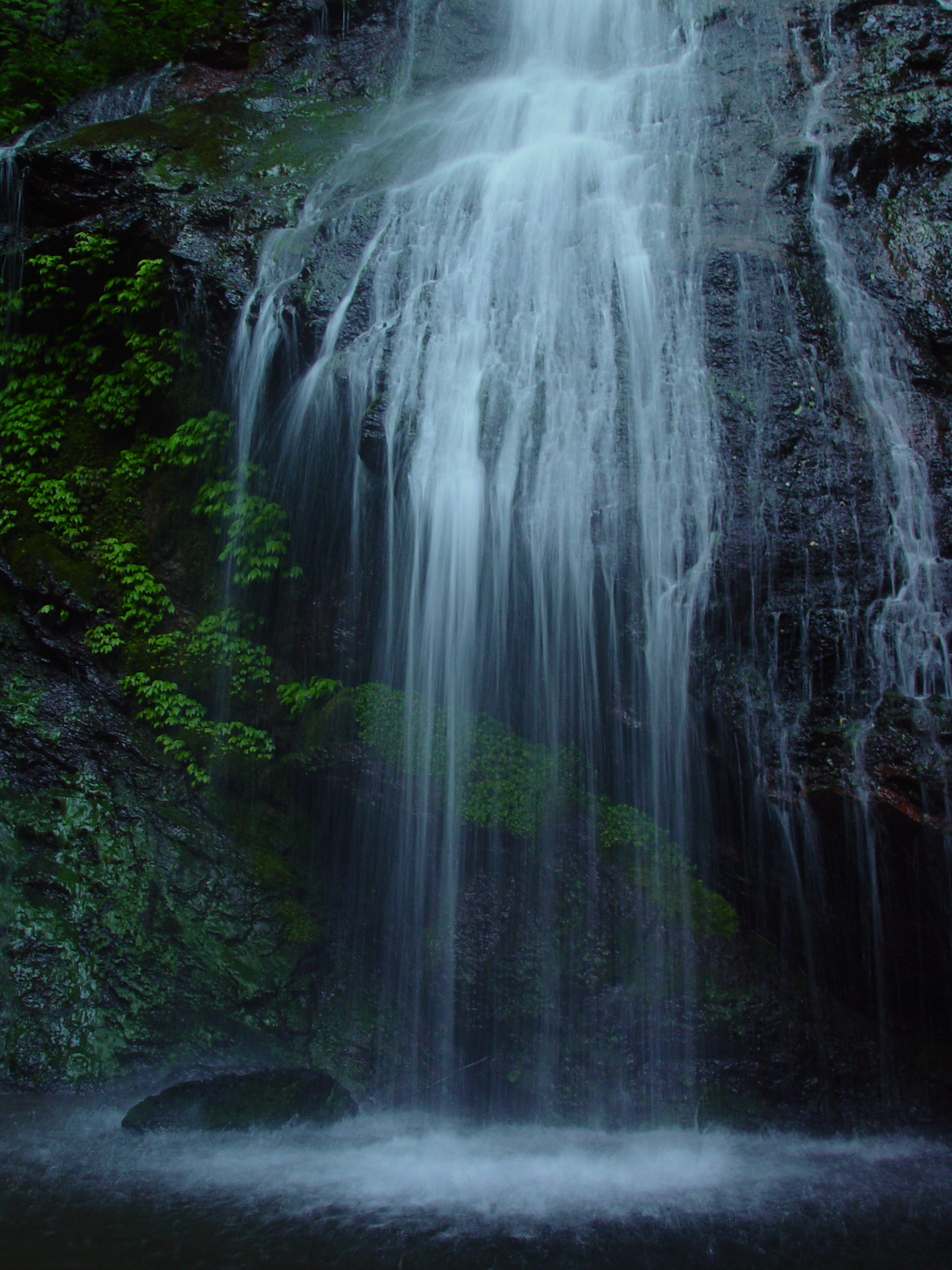 Waterfall Urushigataki in Mount Ryozen of Suzuka Mountains